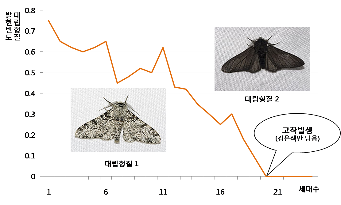 This graph explains fixation of population genetics at Korean language.